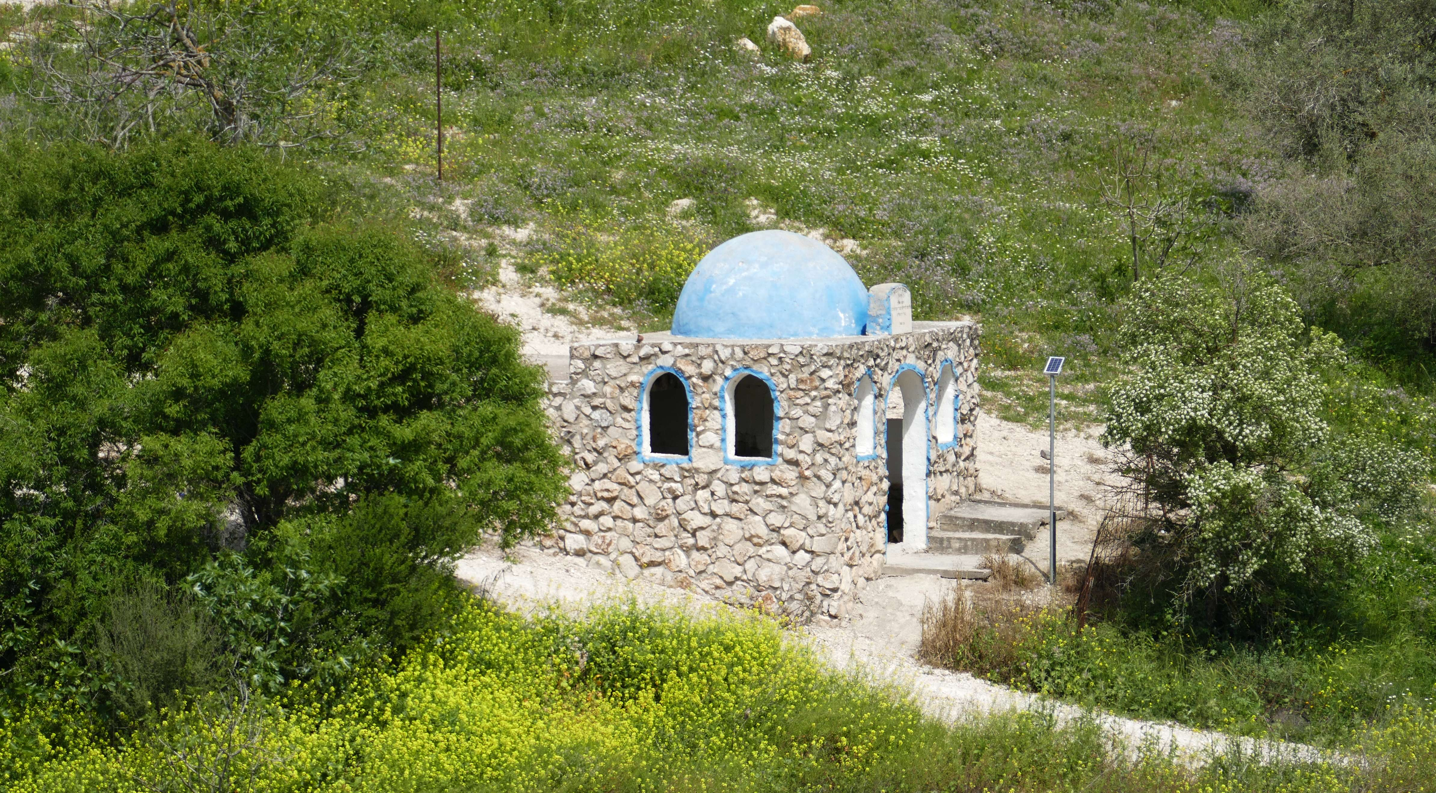 Tomb of Joel in Jish (Gush Halav), Israel.